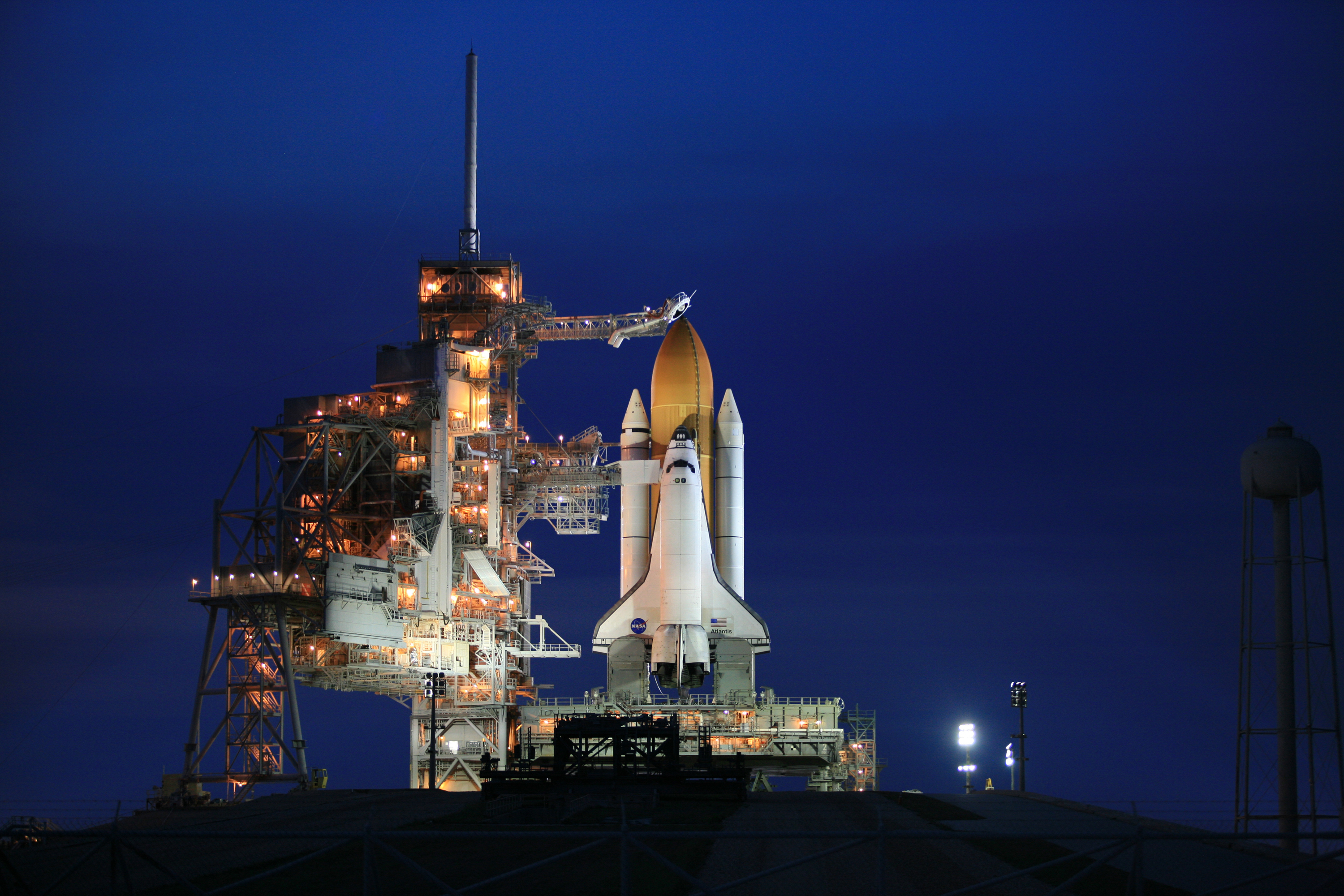 The Rotating Servicing Structure at Kennedy Space Centre's Launch Complex 39A retracts to reveal the Space Shuttle Atlantis as the launch countdown for STS-125, the final servicing mission to the Hubble Space Telescope, enters its final hours.